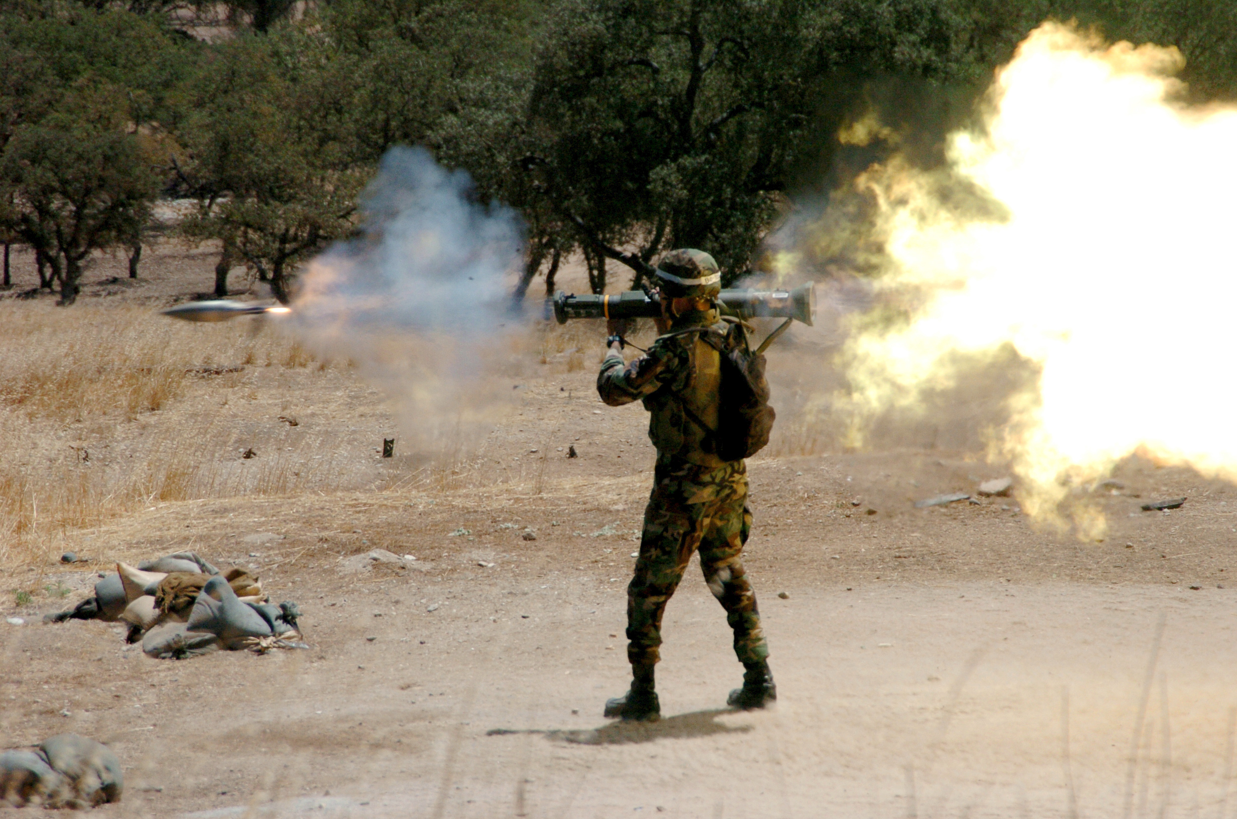 Camp Roberts, Calif. (July 29, 2004) – Builder 2nd Class Patrick King, a range coach from the Thirty-First Seabee Readiness Group, gives a demonstration on the M136 AT-4 rocket launcher to Naval Mobile Construction Battalion Forty (NMCB-40) Seabees. NMCB-40 Seabees are currently conducting training for an upcoming deployment while providing logistic support for deployed Seabee battalions. U.S. Navy photo by Photographer's Mate Airman John P. Curtis (RELEASED)